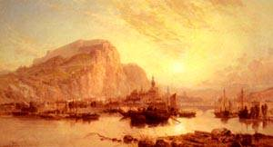 View Of Dinant Belgium